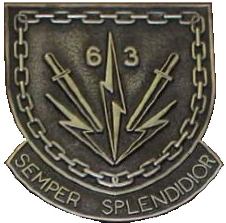 SADF 63 Mech Metal badge